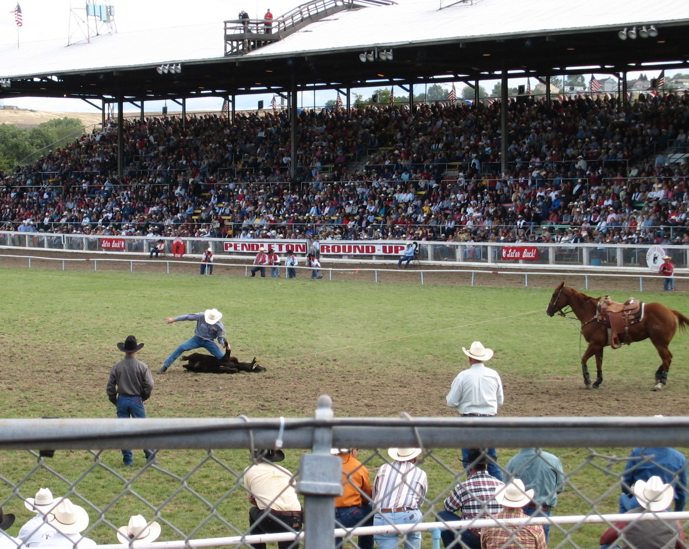 Steer roping as part of the Pendleton Round-Up.